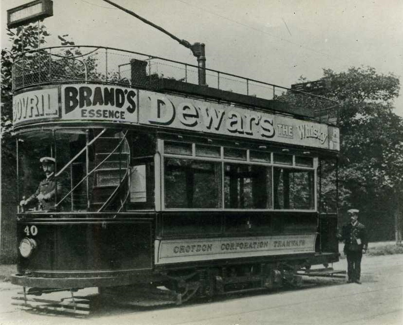 Croydon Corporation Tramways Tram Car No. 40 in Purley